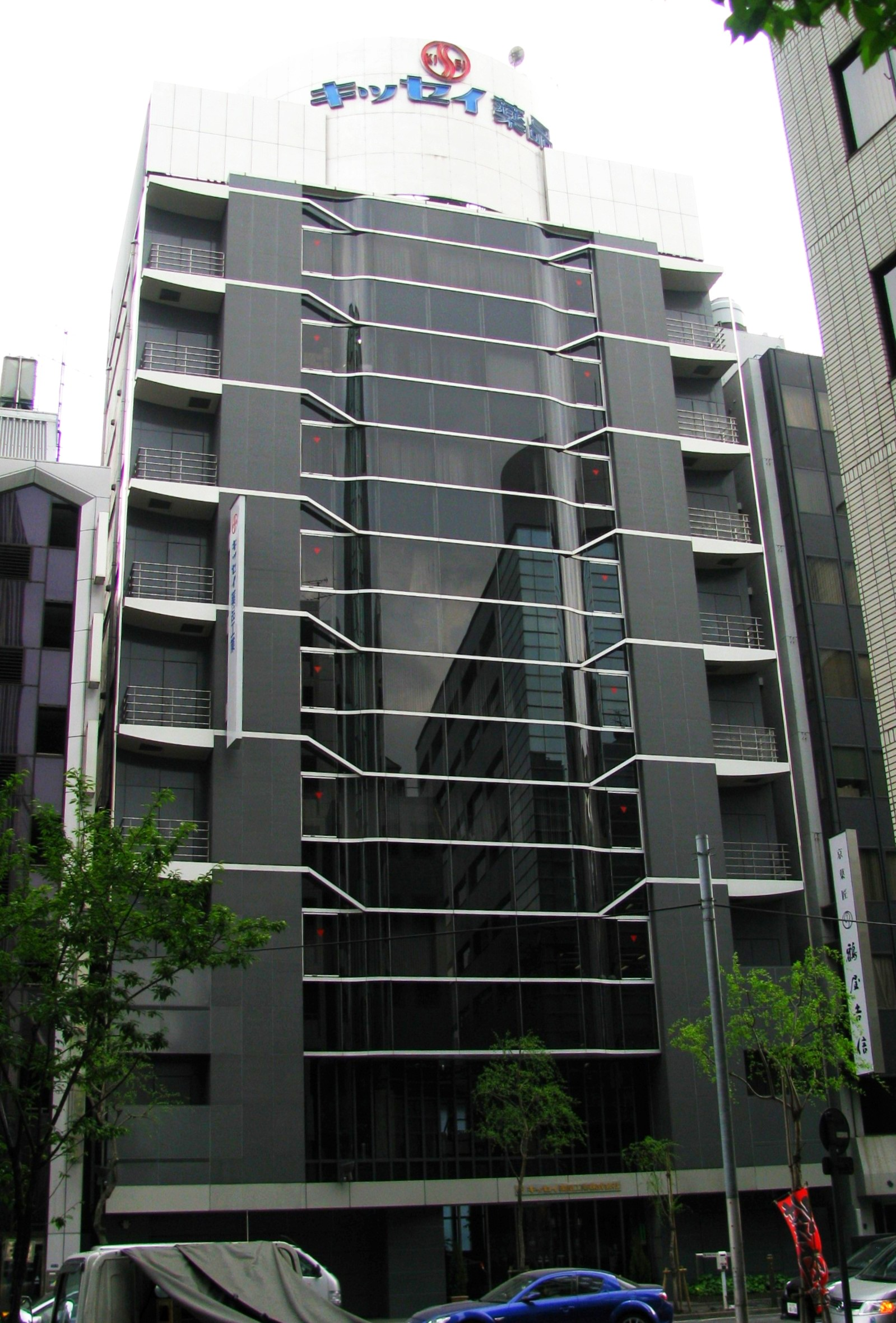 Kissei pharmaceutical Tokyo office.